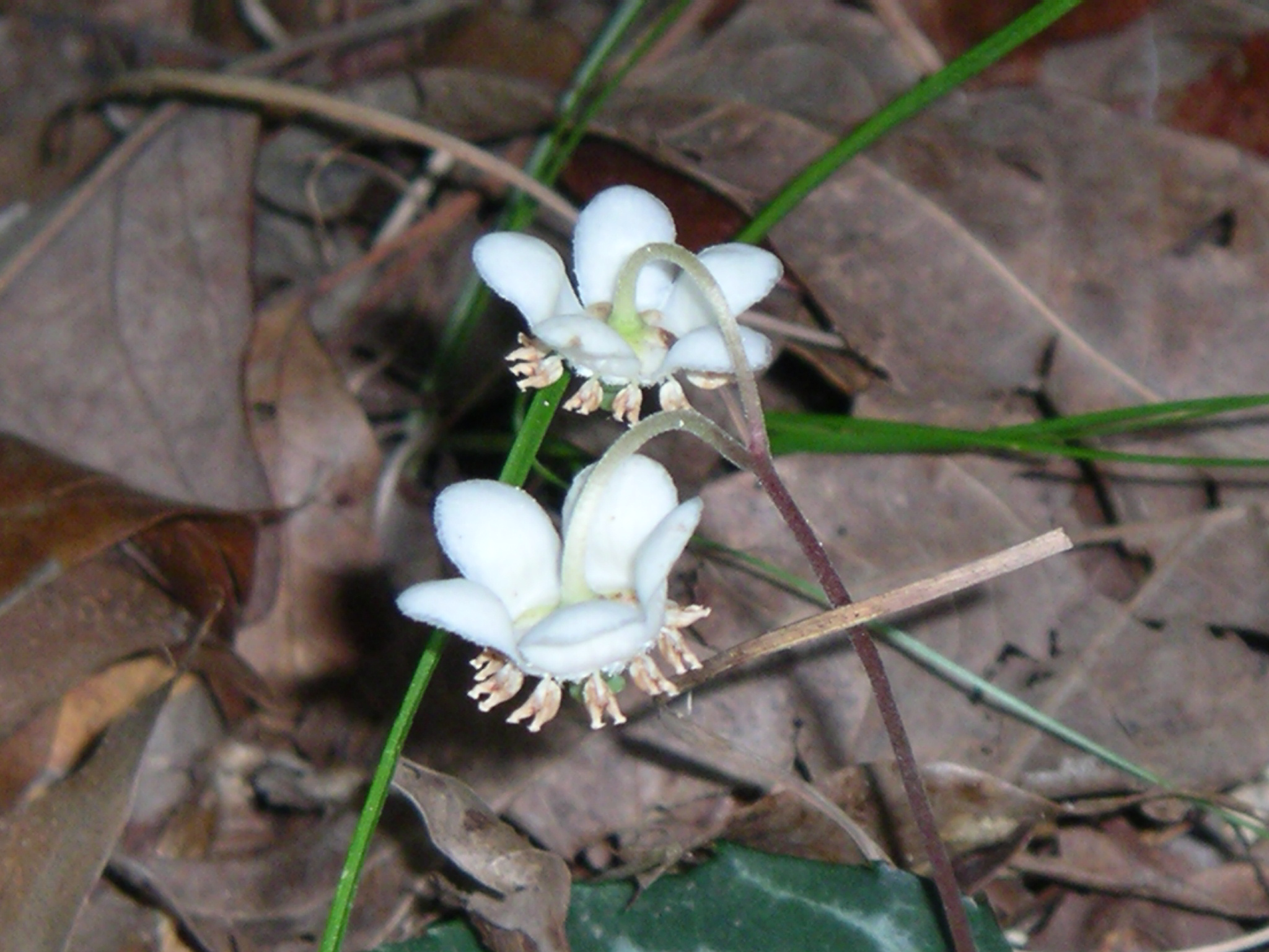 Spotted Wintergreen near Nashville